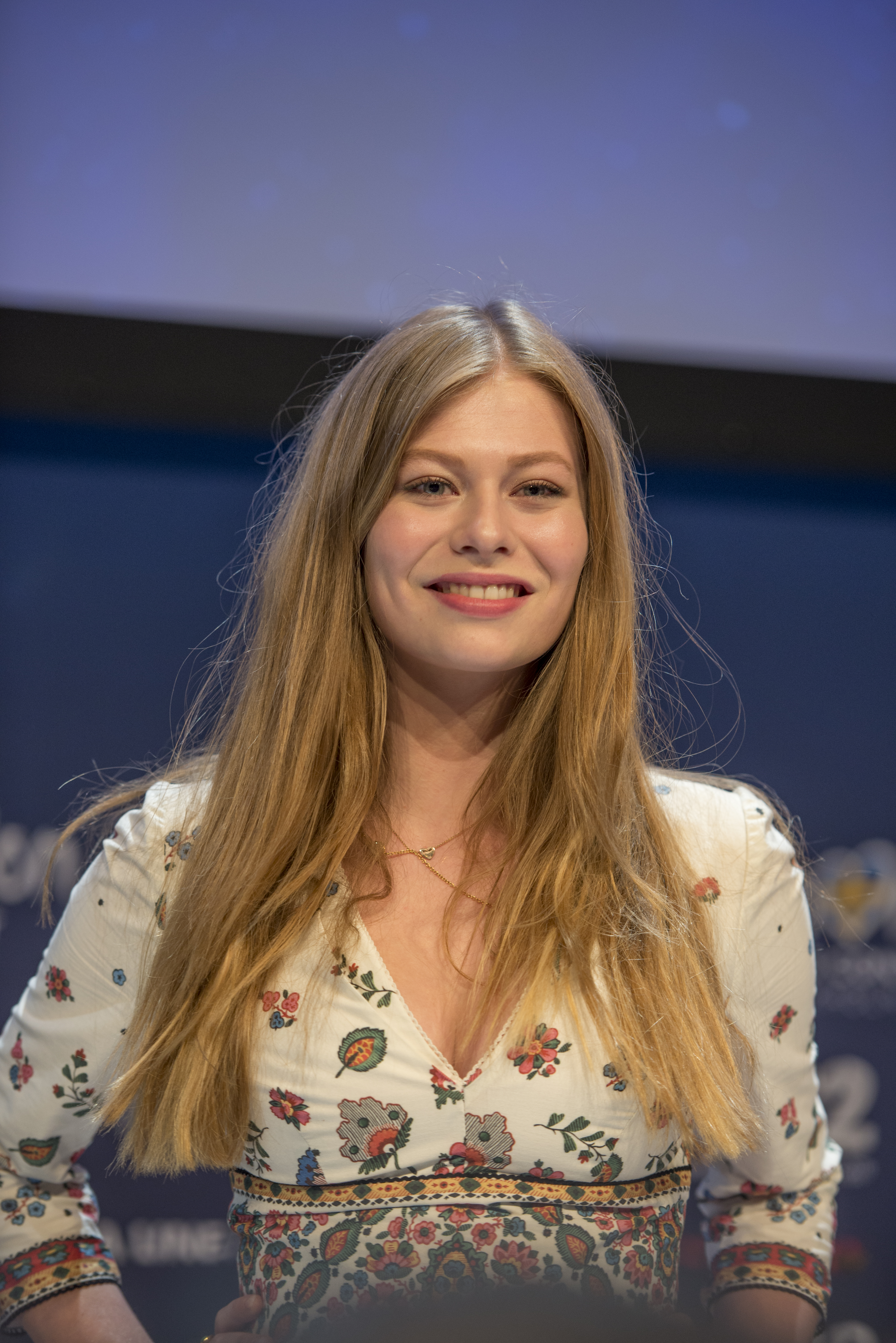 Zoë at a Meet & Greet during the Eurovision Song Contest 2016 in Stockholm. (Help translate this text)